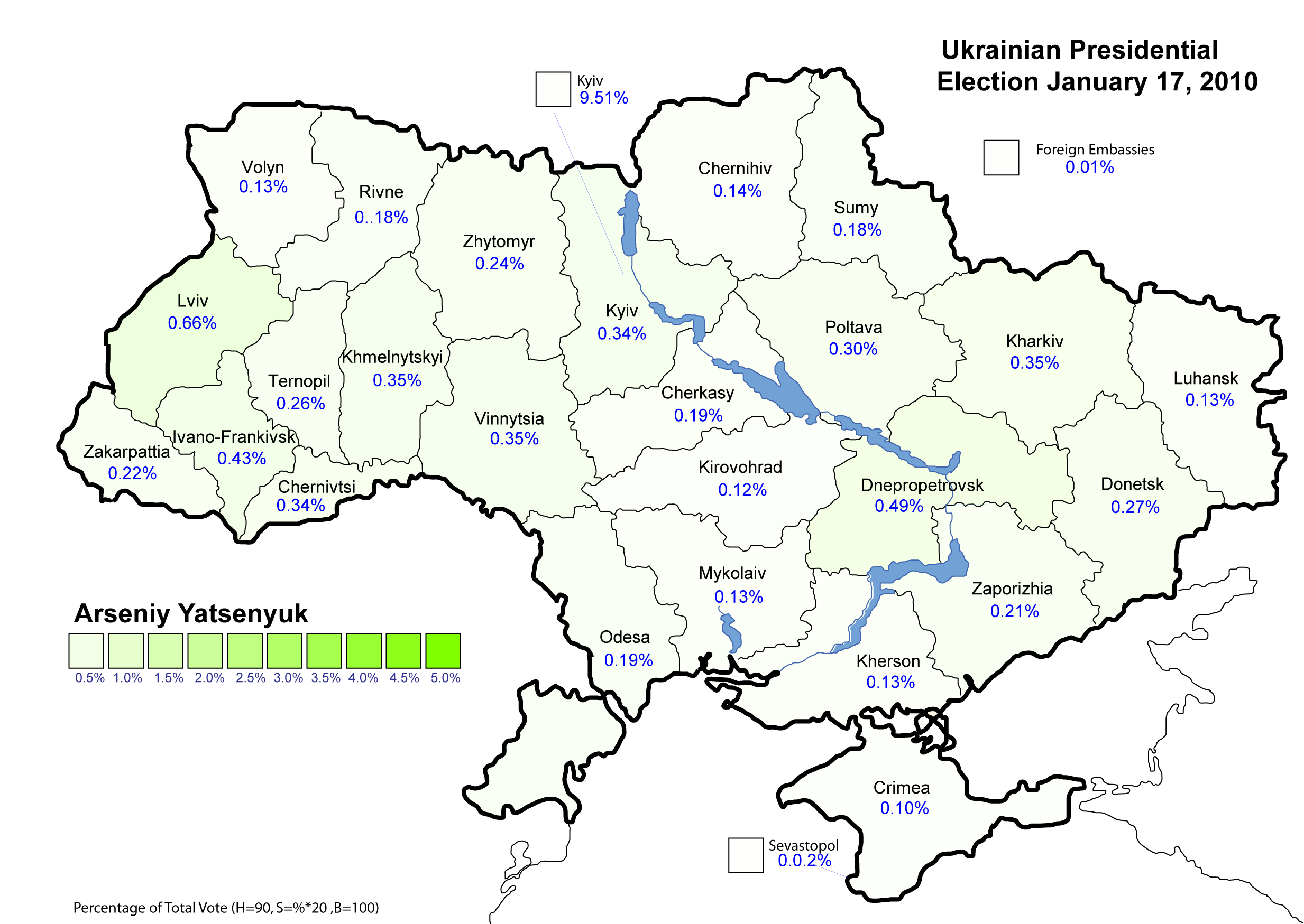 Ukrainian Presidential Election January 17, 2010 - Arseniy Yatsenyuk (First Round)